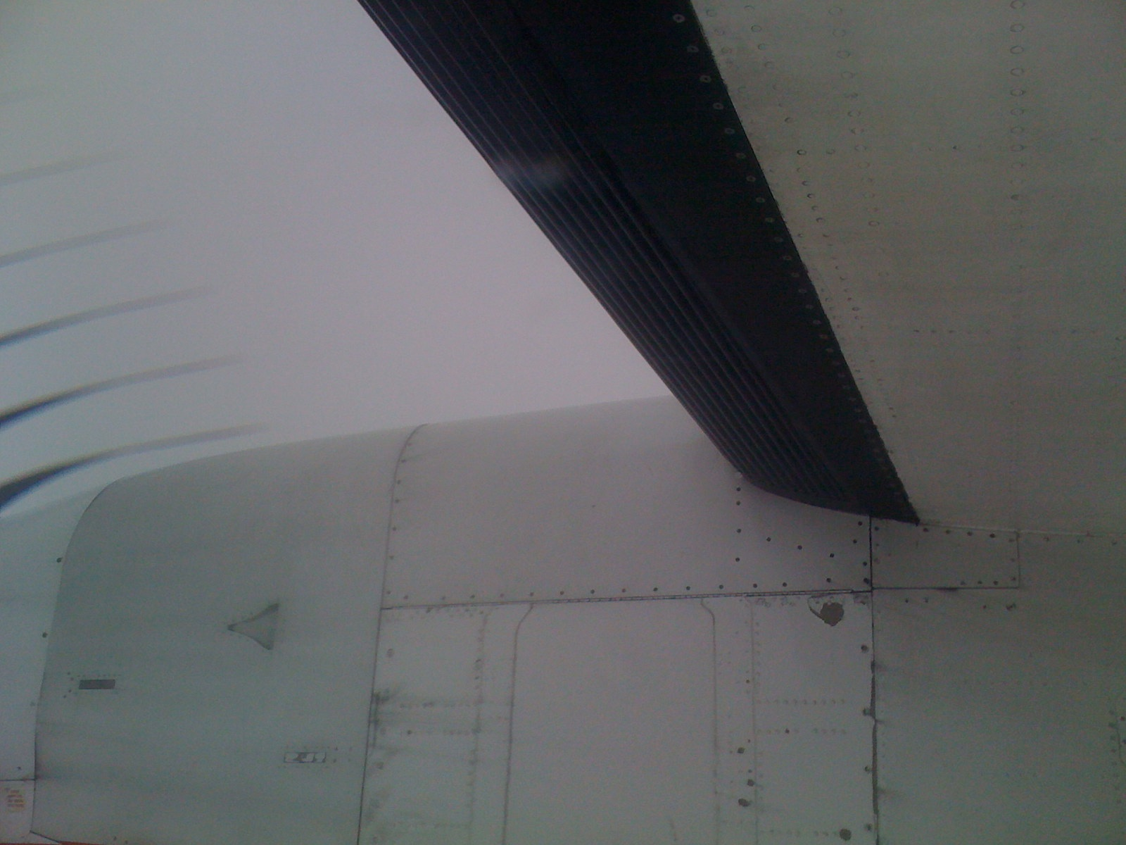 A pneumatic de-icing boot (in black) in operation on the leading edge of an aircraft wing. Photo is of a Bombardier Dash 8 Q400 aircraft, taken during a morning Horizon Air flight from Seattle, WA (SEA) to Victoria, BC (YYJ) on 2009-03-09.